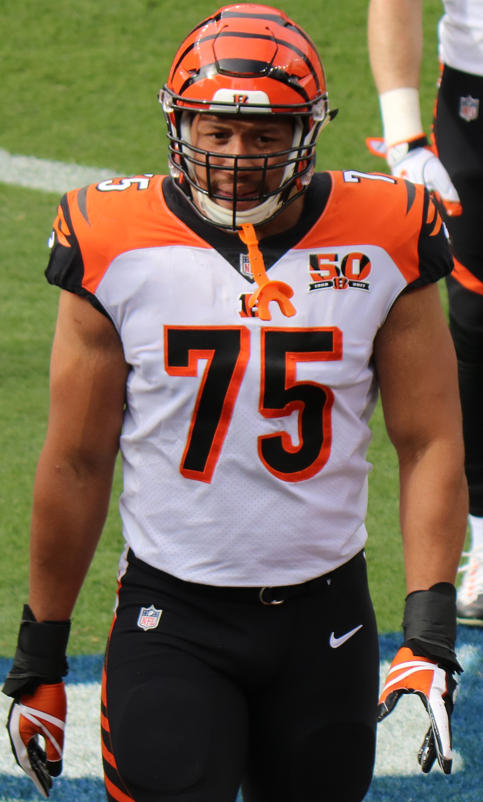 Jordan Willis, a National Football League player.